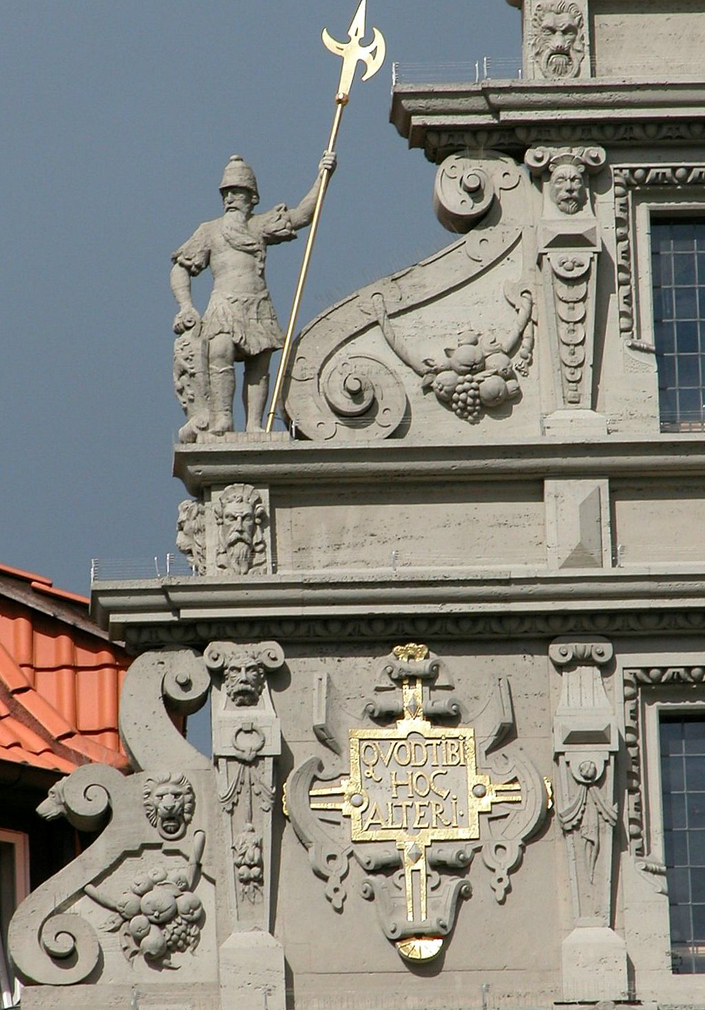 Brunswick, Germany: Cloth Hall, detail of the east façade.